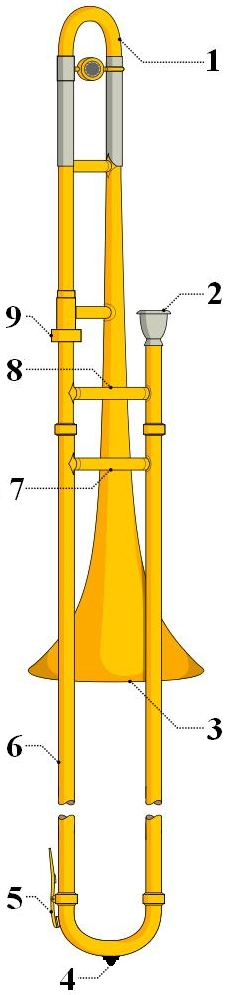 A diagram of the trombone